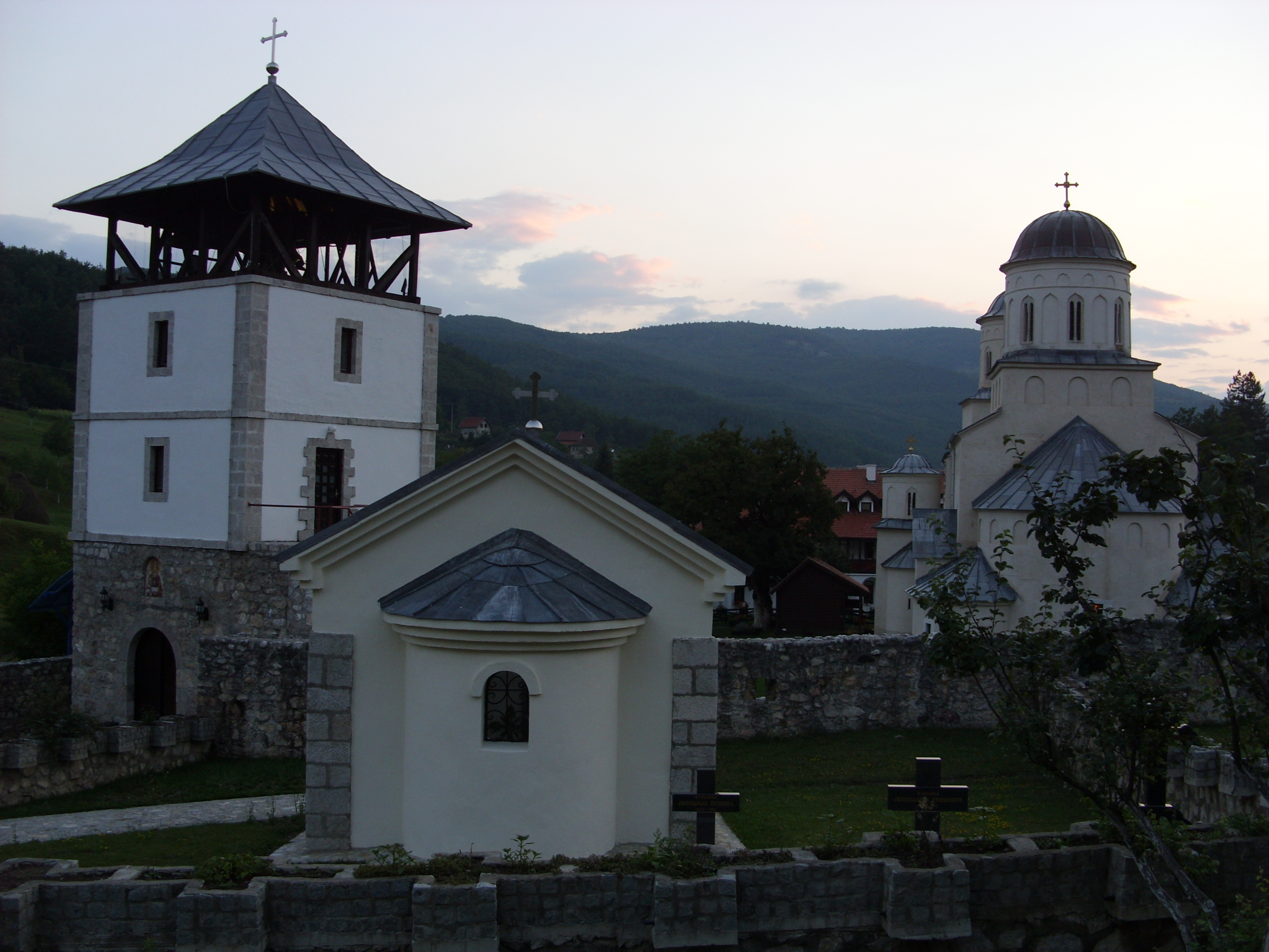 Mileševa monastery near Prijepolje in Serbia.